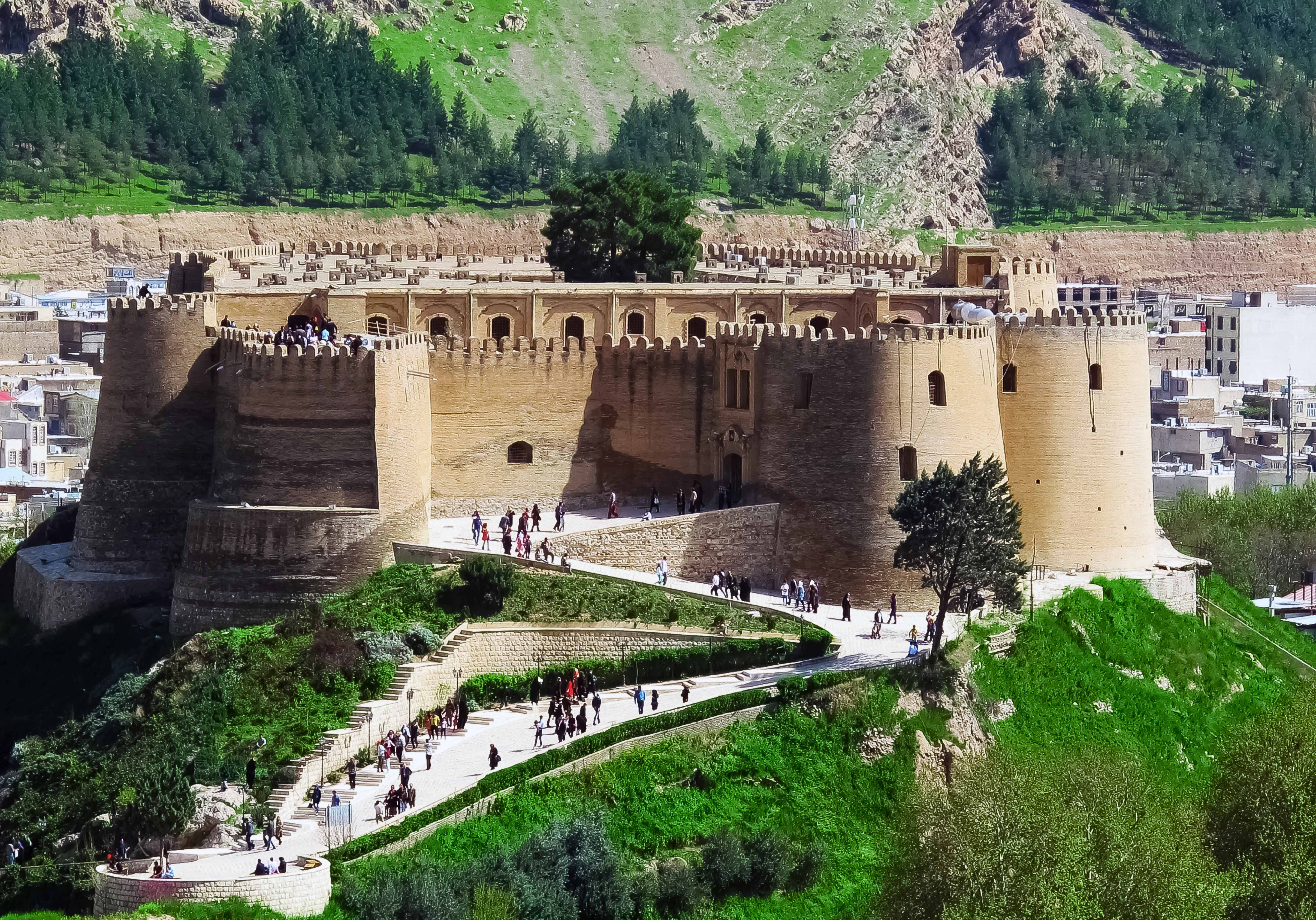 Shapur Khast Castle KhorramAbad